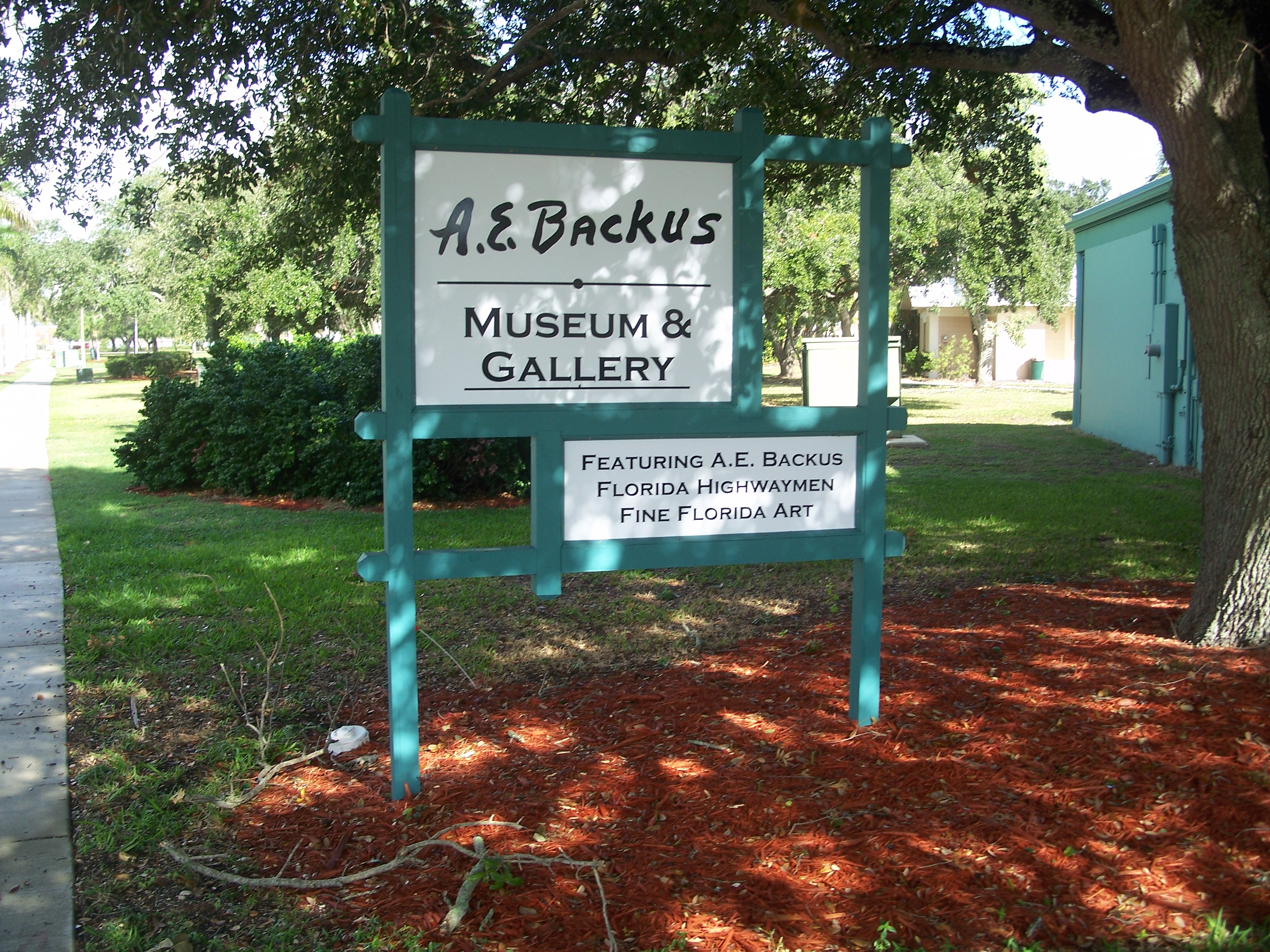 Fort Pierce, Florida: A. E. Backus Gallery & Museum